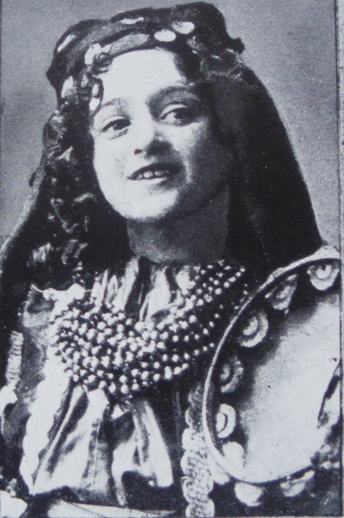 Celia Adler as a girl